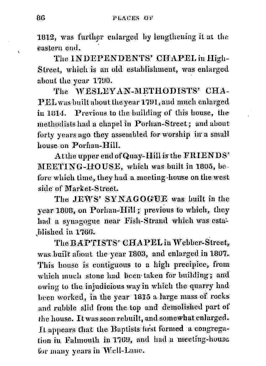 A page from a Falmouth guidebook dated 1827, listing (for the benefit of visitors) some of the town’s Nonconformist denominations. Falmouth had always been an outward-looking place, and this is clearly illustrated by the wide range of religious groups adopted within the town.